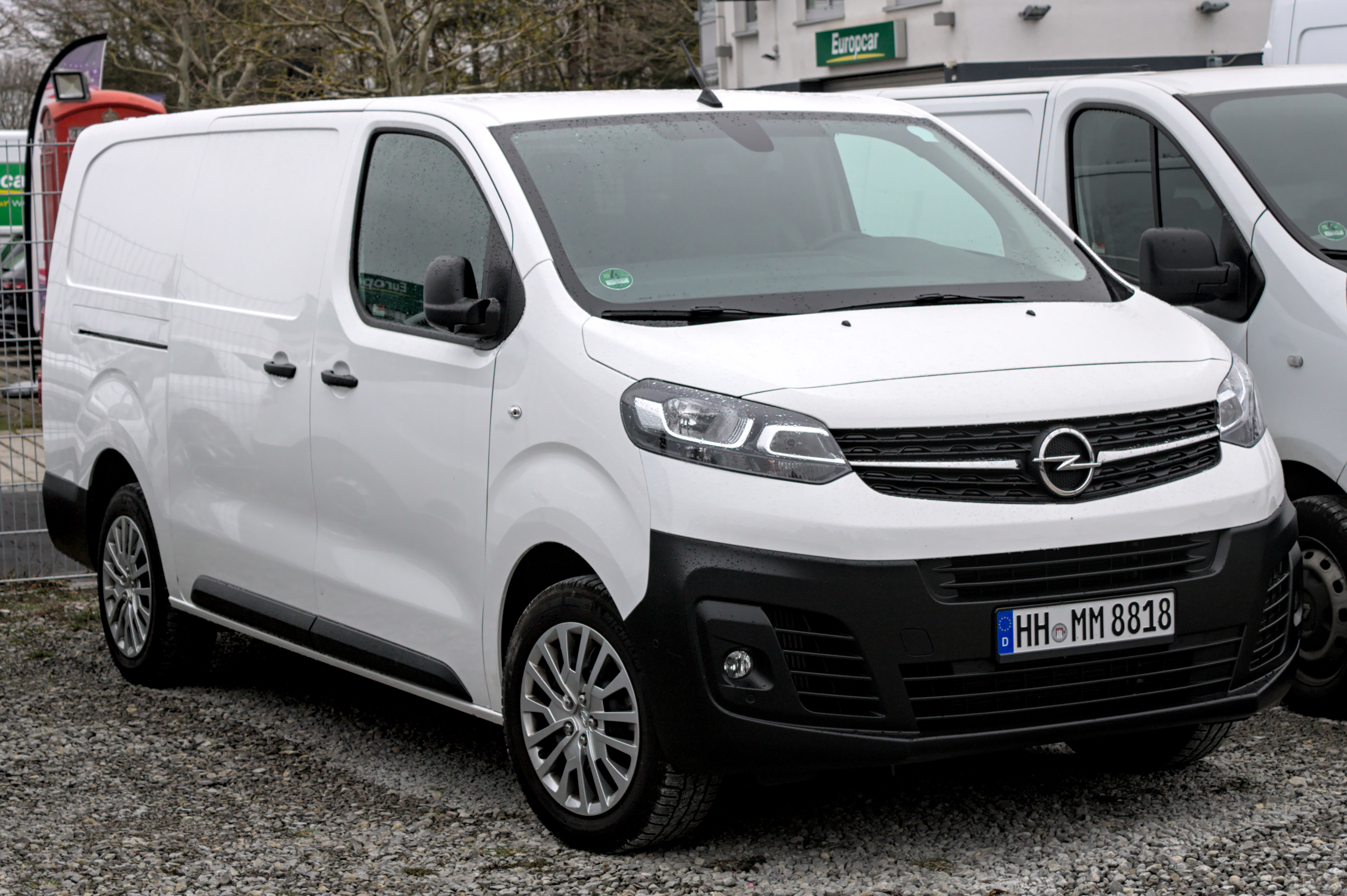 Opel_Vivaro_C in Stuttgart-Vaihingen